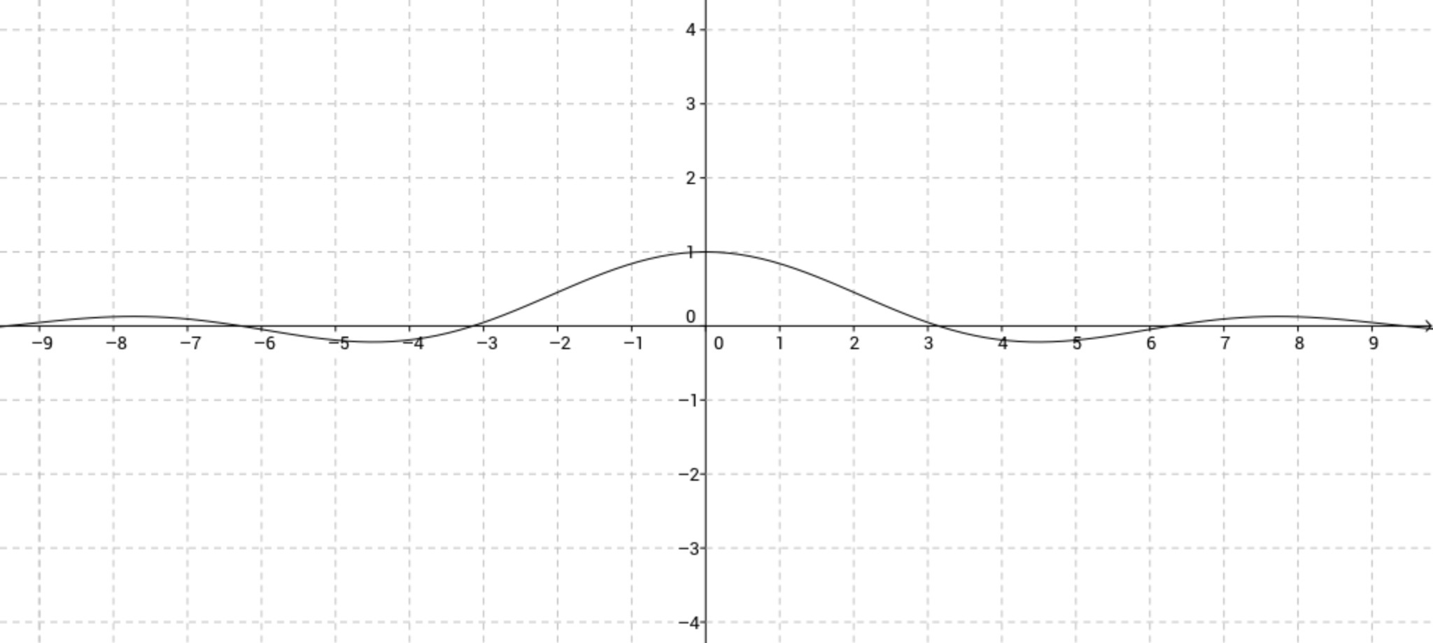 Figure of the equation f(x)=sinx/x